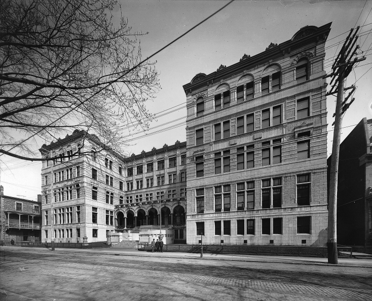 Photograph, Laval University, St. Denis Street, Montreal, QC, 1903, Wm. Notman & Son, Silver salts on glass - Gelatin dry plate process 20 x 25 cm